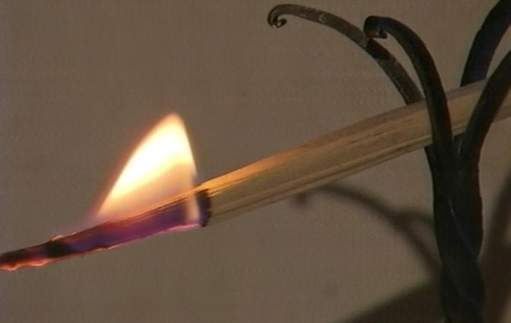 rushlght